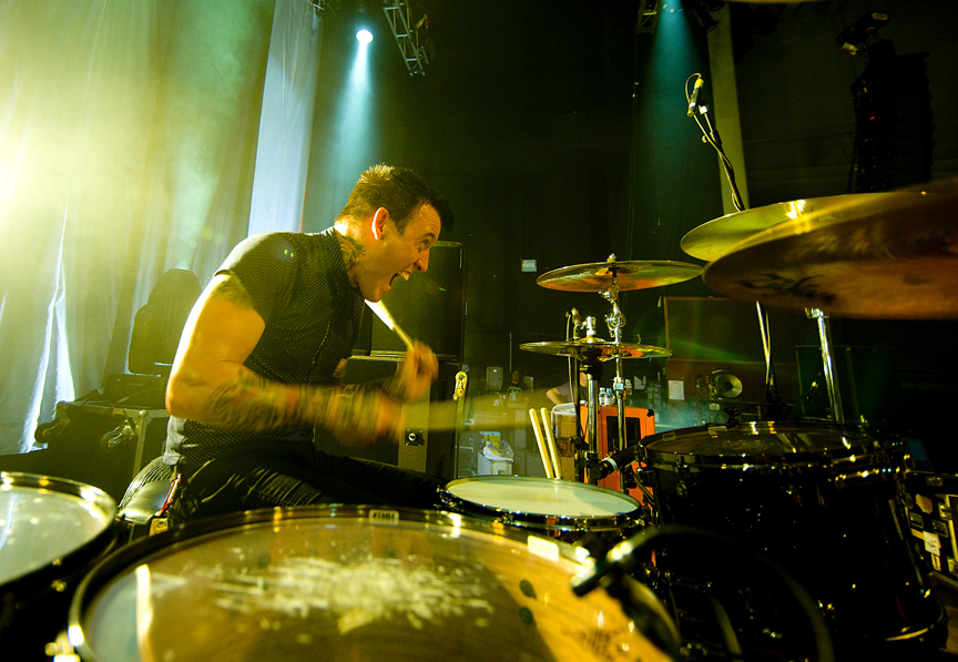 live shot